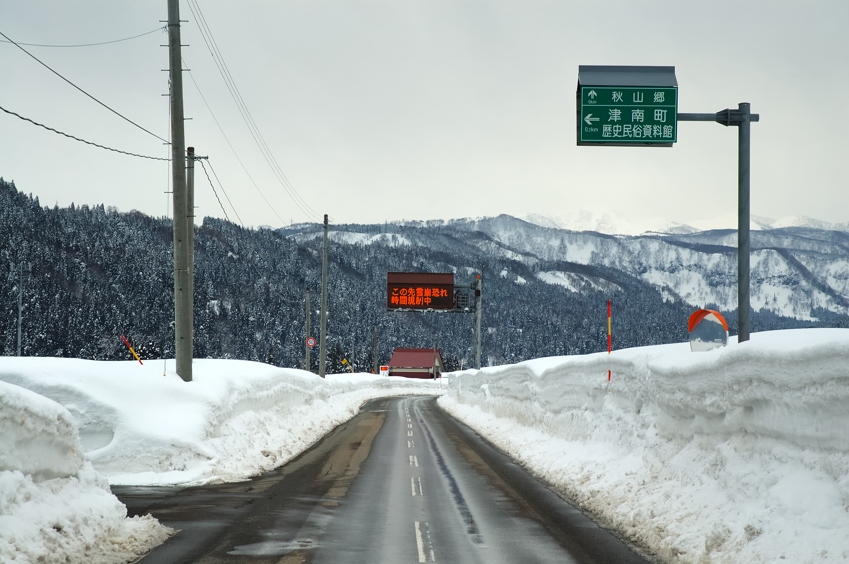 Route 405 Japan 2006 Winter (国道405号, 2006年冬. 新潟県ja:津南町内にて)